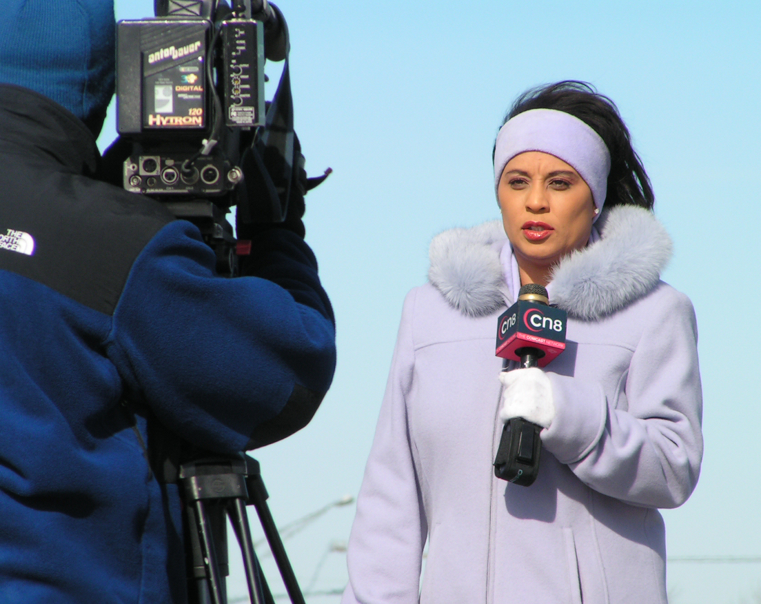 Reporter from CN8 at the Petco gas explosion.Reporter